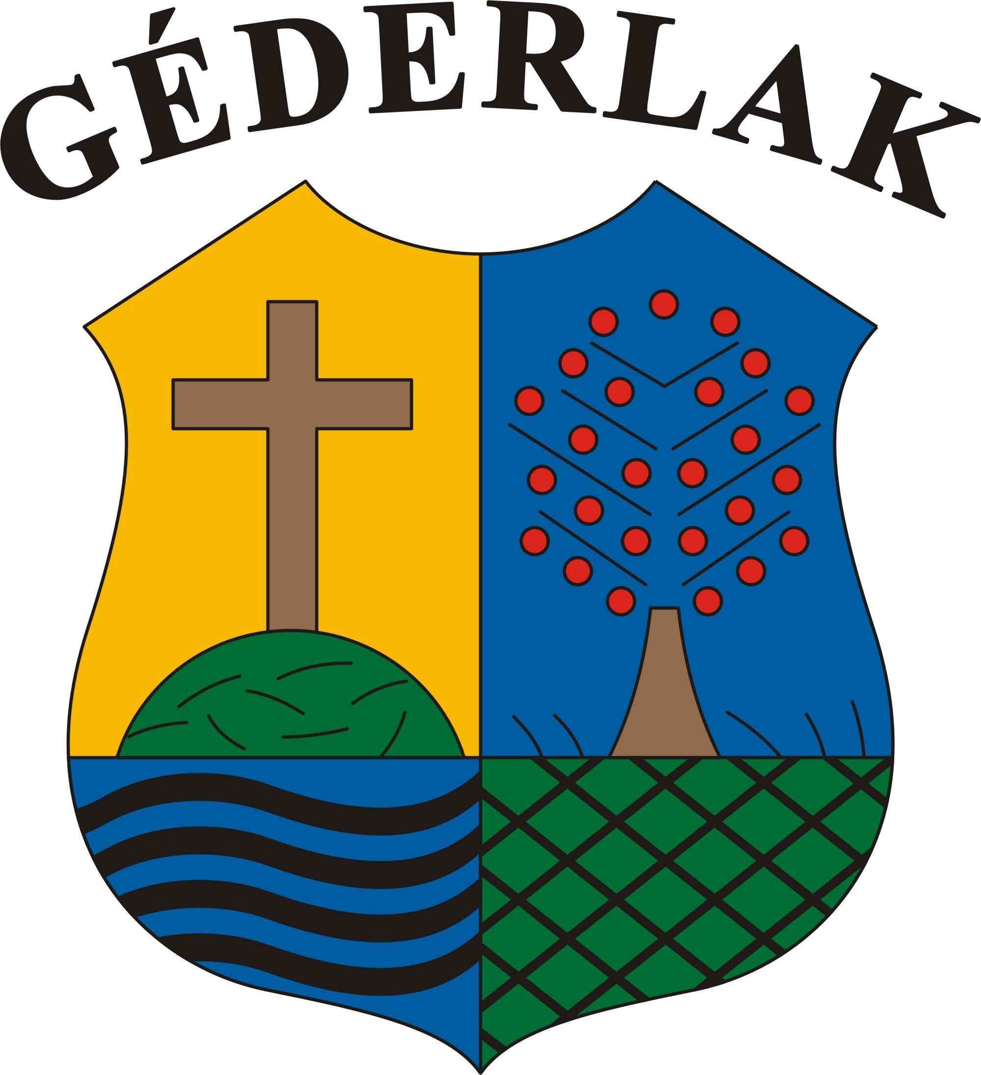 Coat of arms of Géderlak, Hungary